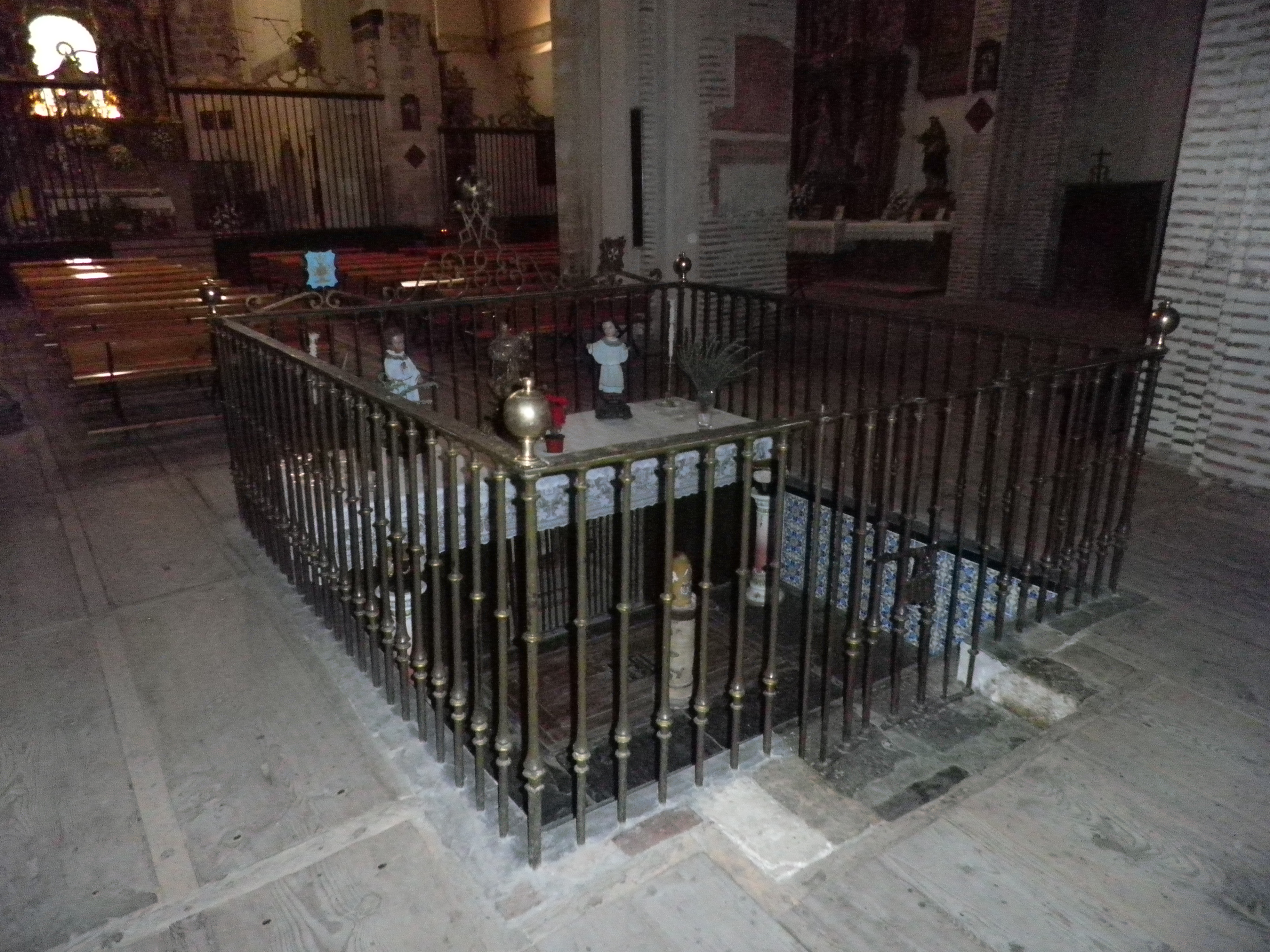 Entry to the cave where was found Soterraña Virgin image inside of church.